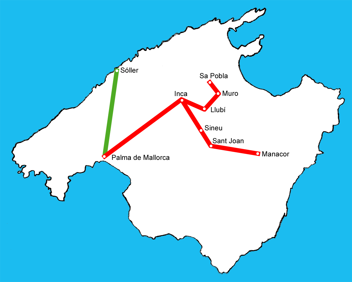 Railways in Mallorca